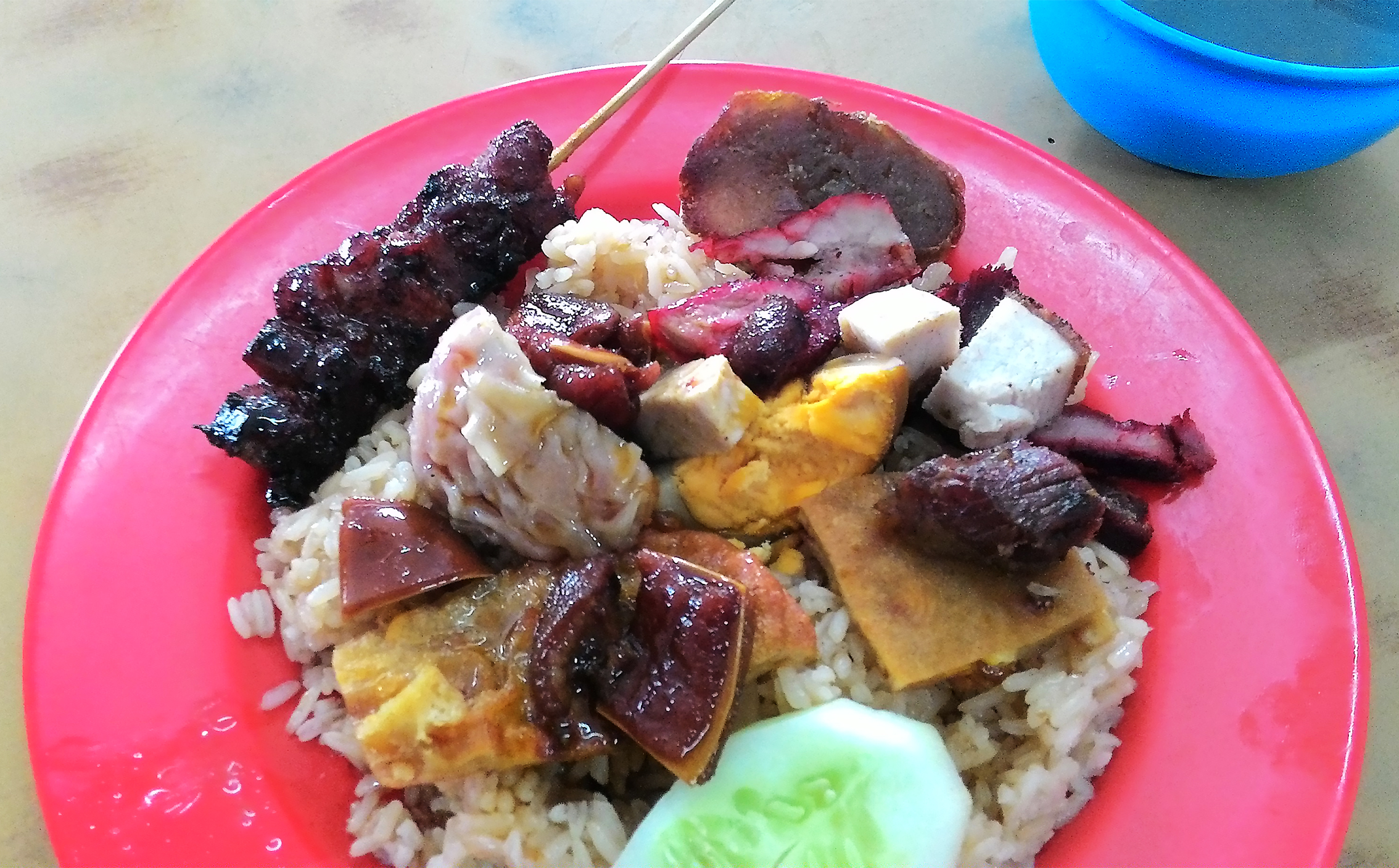 Nasi Campur Tionghoa, Chinese Indonesian dish served in Kenanga Restaurant, Jalan Kramat Raya, Senen, Central Jakarta, Indonesia. It consist of rice surrounded with Chinese barbecues, such as charsiu and samcan (roasted pork belly), pork satay, pork dumplings, pork ear, egg and cucumber with clear broth soup with salted vegetables.